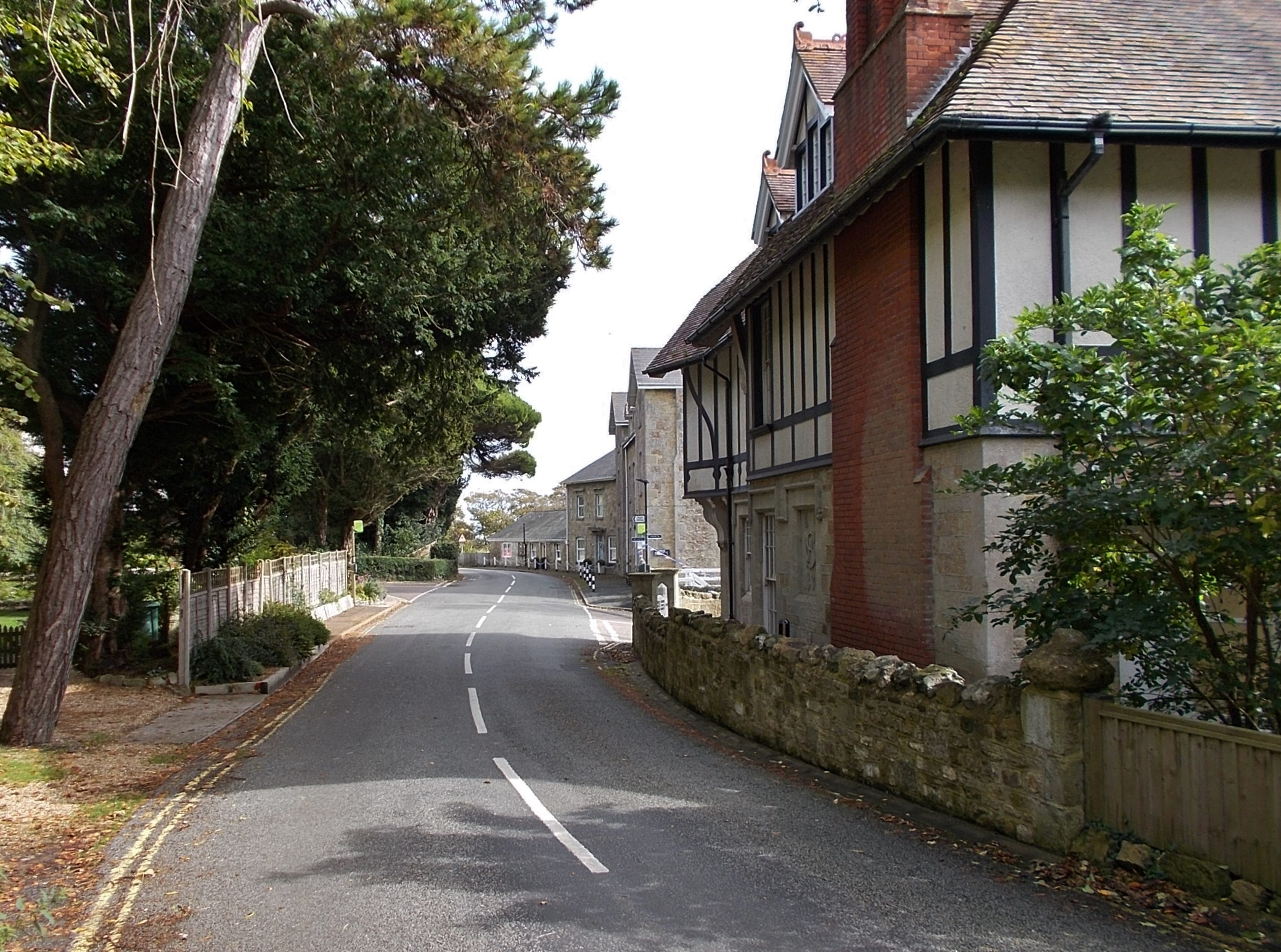 St Lawrence, Isle of Wight, UK